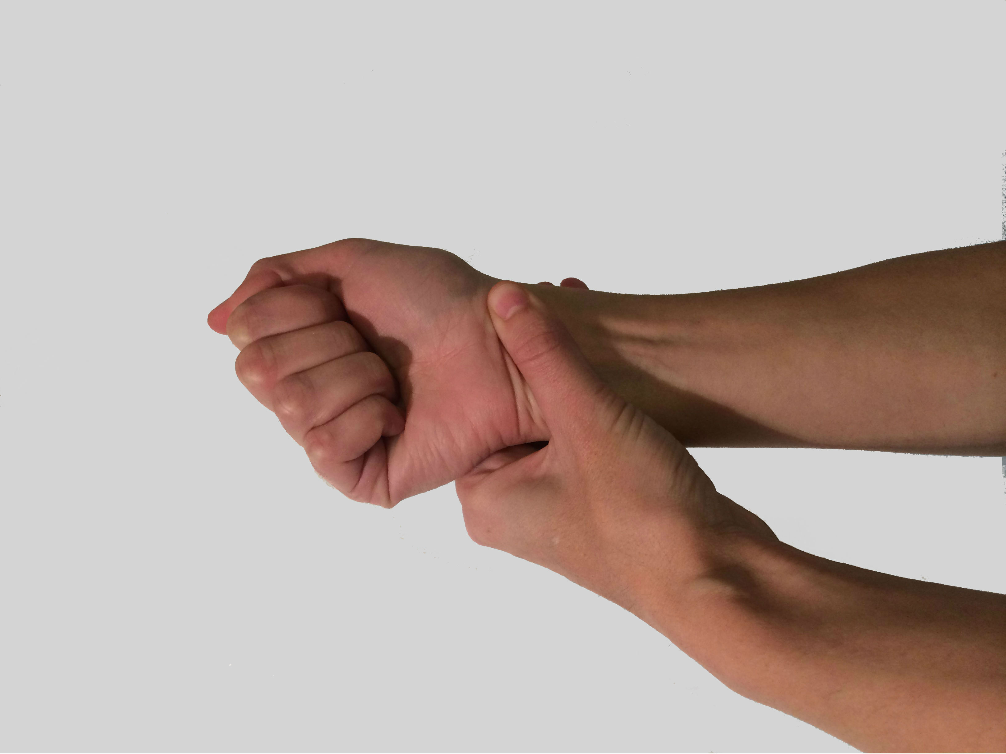 Photo showing repetitive strain injury symptoms.